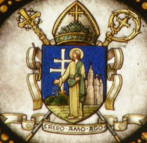 Coat of arms of István Madarász, bishop of Košice, Slovakia (1939 - 1948). Stained-glass window in Mary, Queen of Peace Church in Košice.